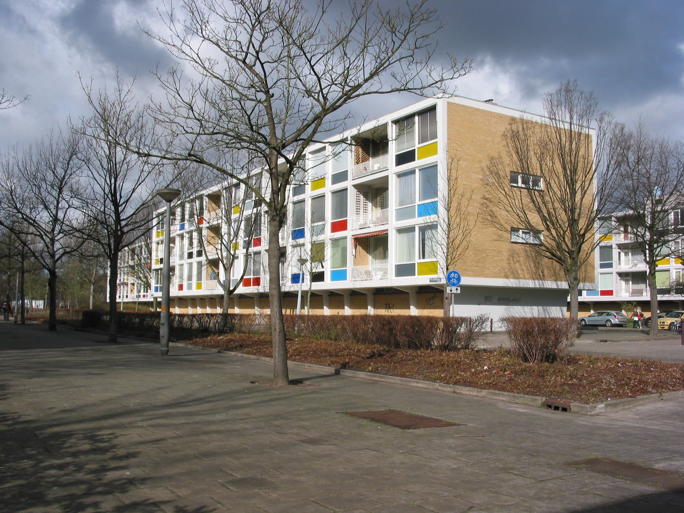 Warnersblokken, A. Warners (architect). Dirk Schäferstraat 1-27, Amsterdam. 1957. Te zien is de achtergeval aan de Fred. Roeskestraat. 12″ N, 4° 51′ 58.68″ E